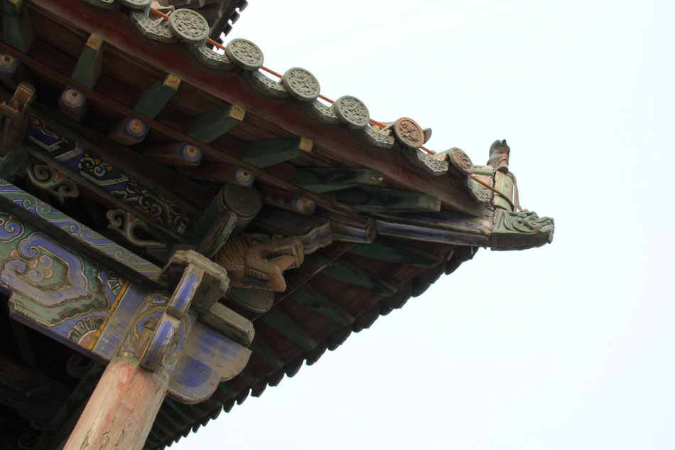 Zhi Fang Yuhuang Ge is Ming Dynasty ancient buildings. Brick structure without beam arch top Pavilion, located in Handan City, Hebei Province, Lin Shui Town, n. Jade Emperor for the festival, was built in Ming Longqing years (1567 - 1572). May 25, 2006, the State Council announced that it is a national key cultural relics protection unit.